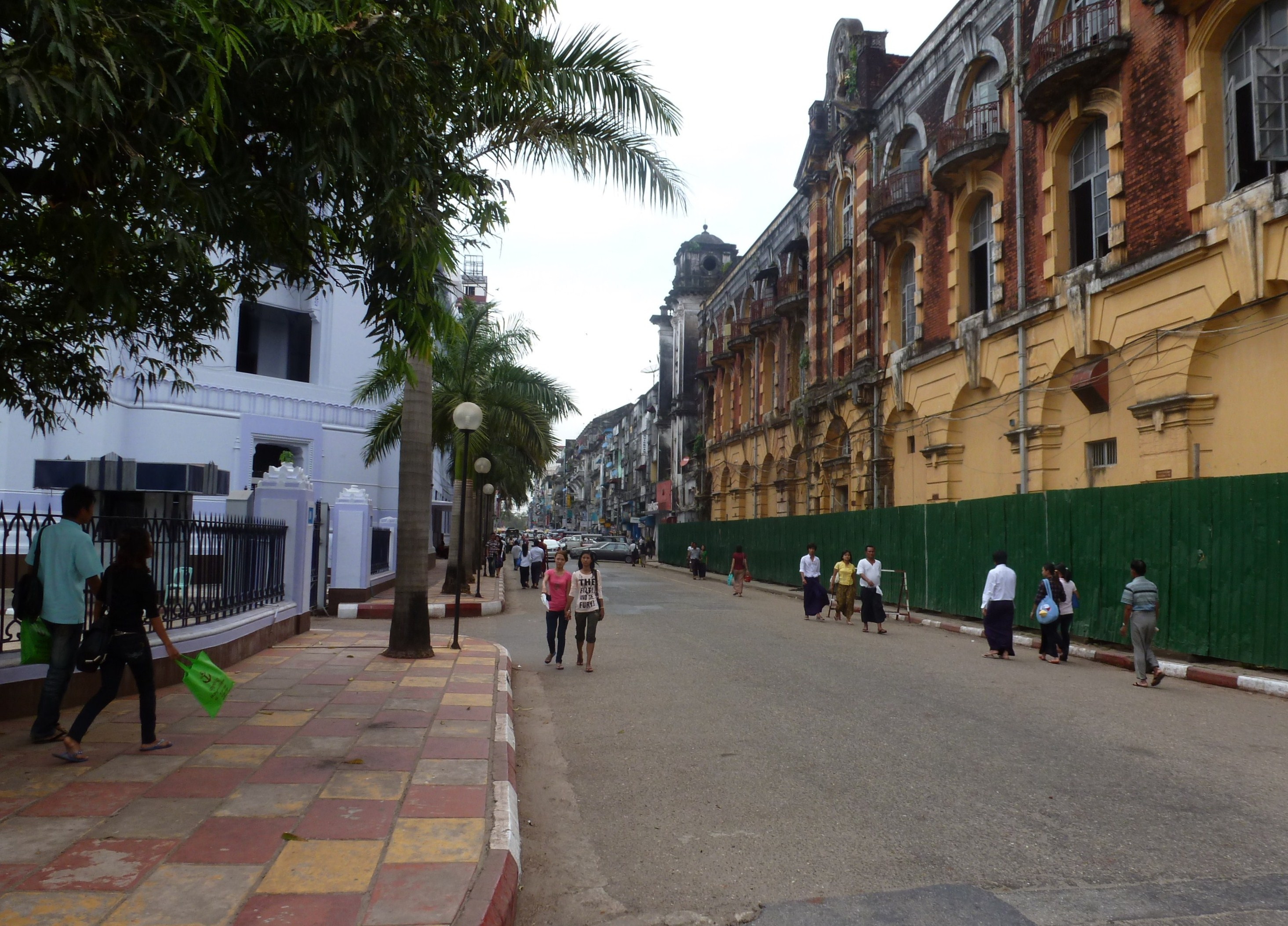 Maha Bandula Park Street, next to the Yangon City Hall